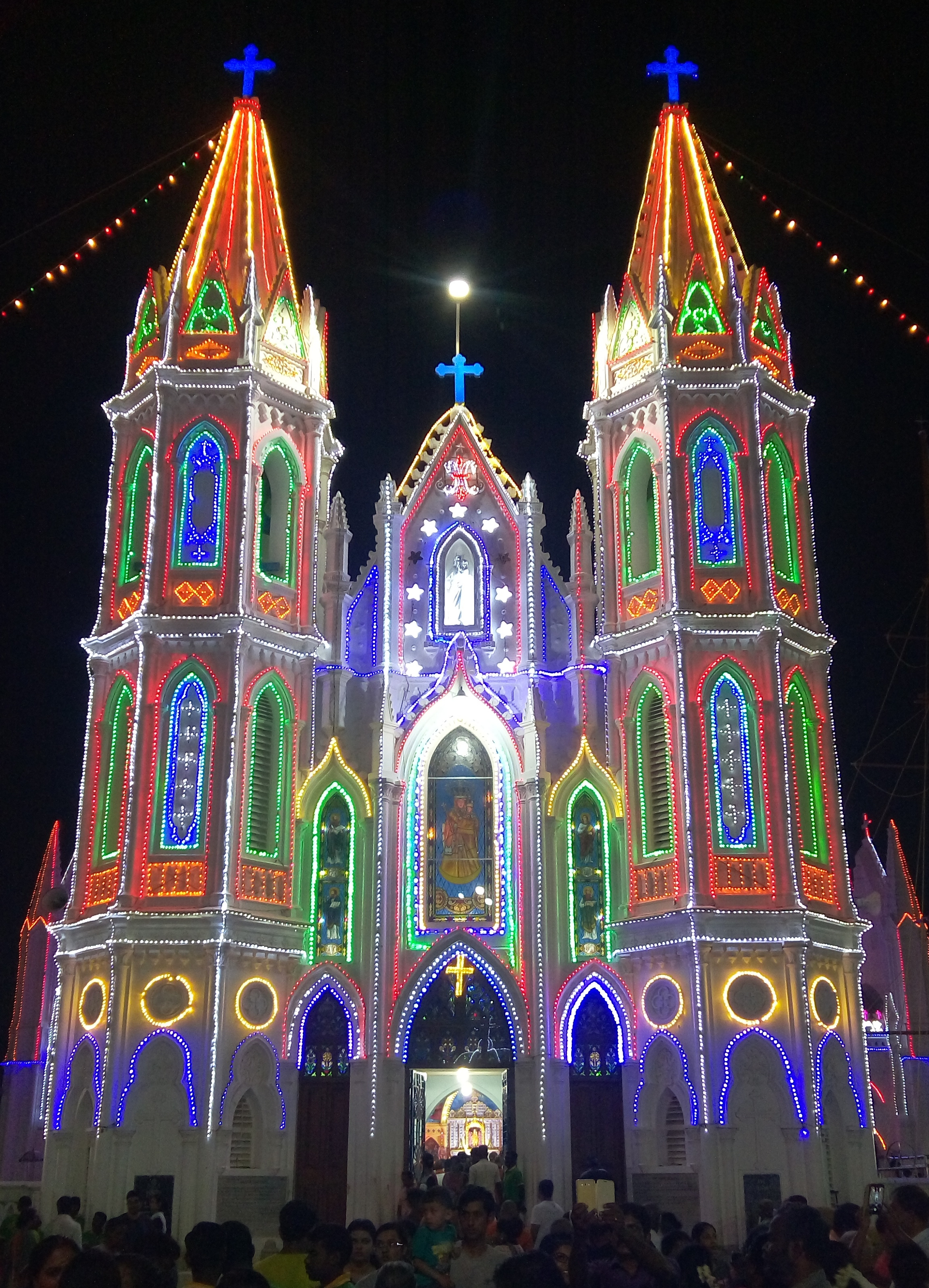 This image was taken during 2017